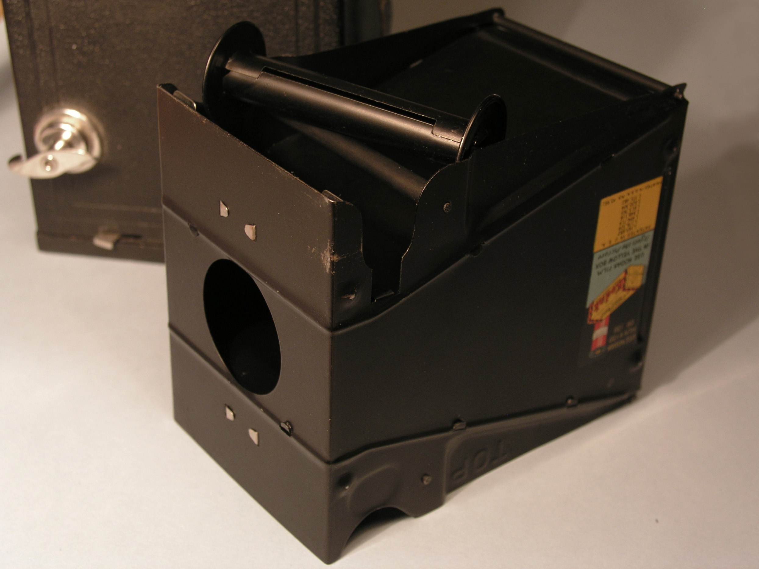 Kodak Brownie camera, film guide detail.